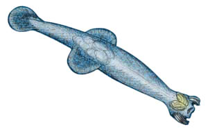 Reconstruction of the primitive arrow worm Protosagitta spinosa, from the late Early Cambrian of China